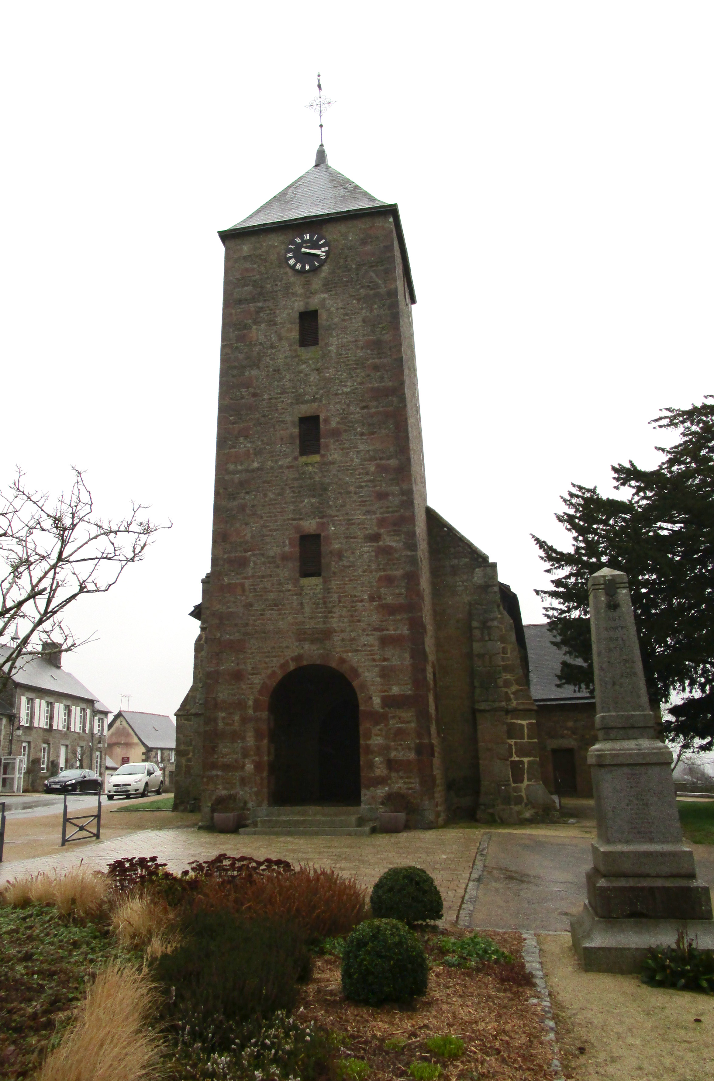 Saint-Mars-sur-la-Futaie's Square, France